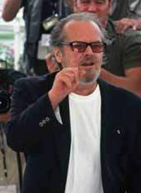 Nicholson, Jack at Cannes in 2001. My own picture. Created by Rita Molnár 2001.